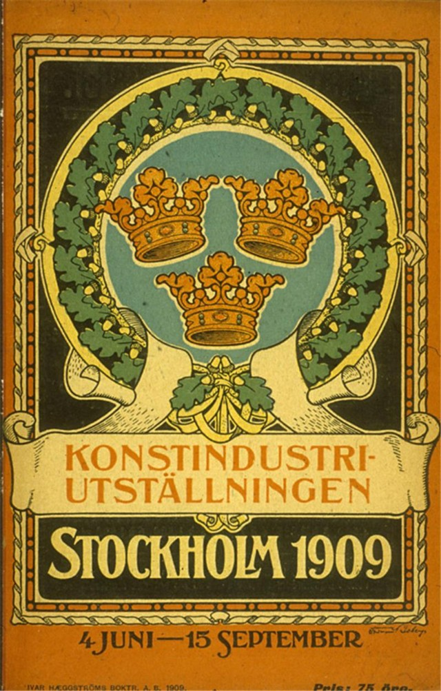 Konstindustriutställningen 1909 in Stockholm